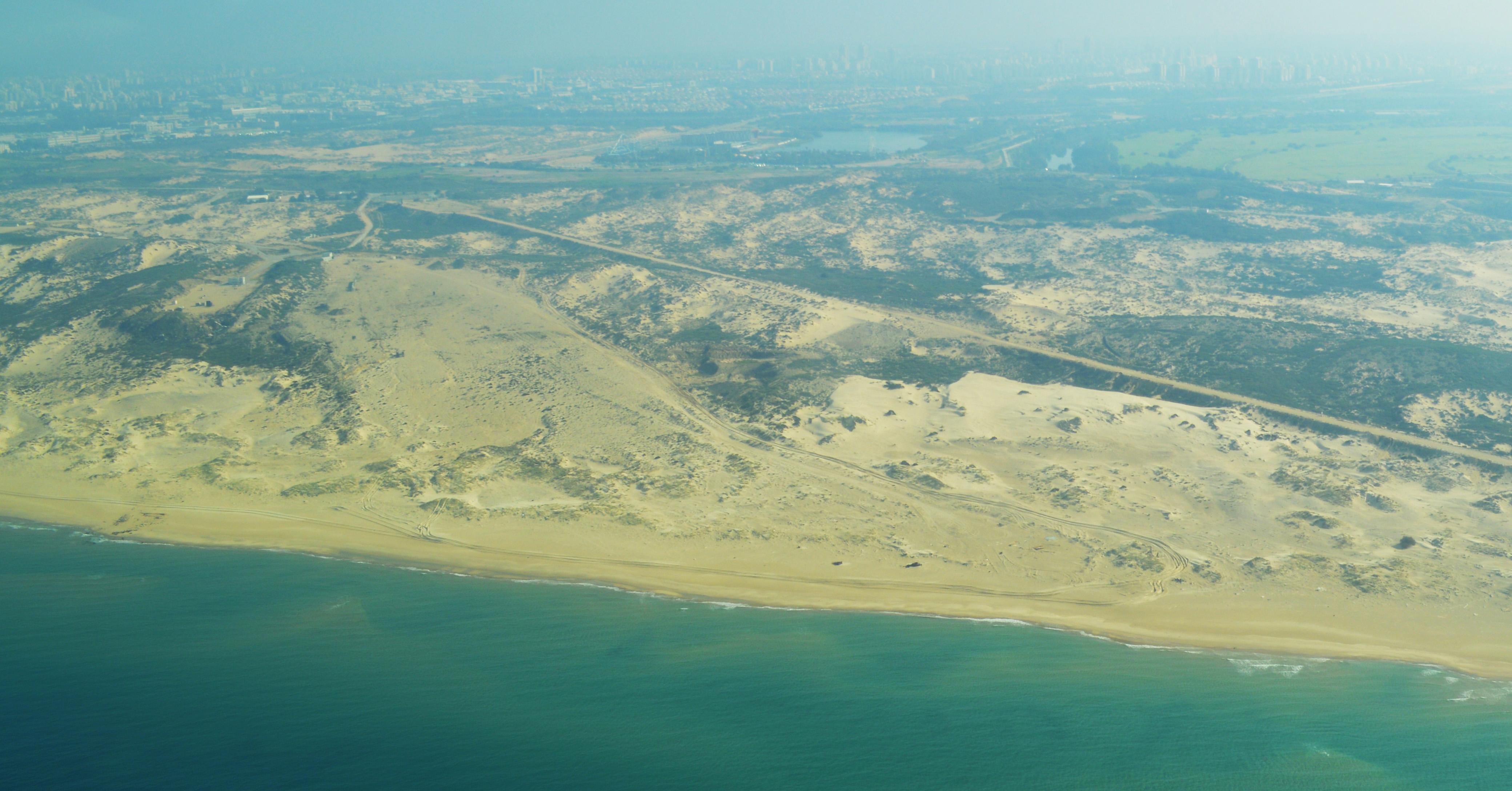 Rishon LeZion Dunes Aerial View